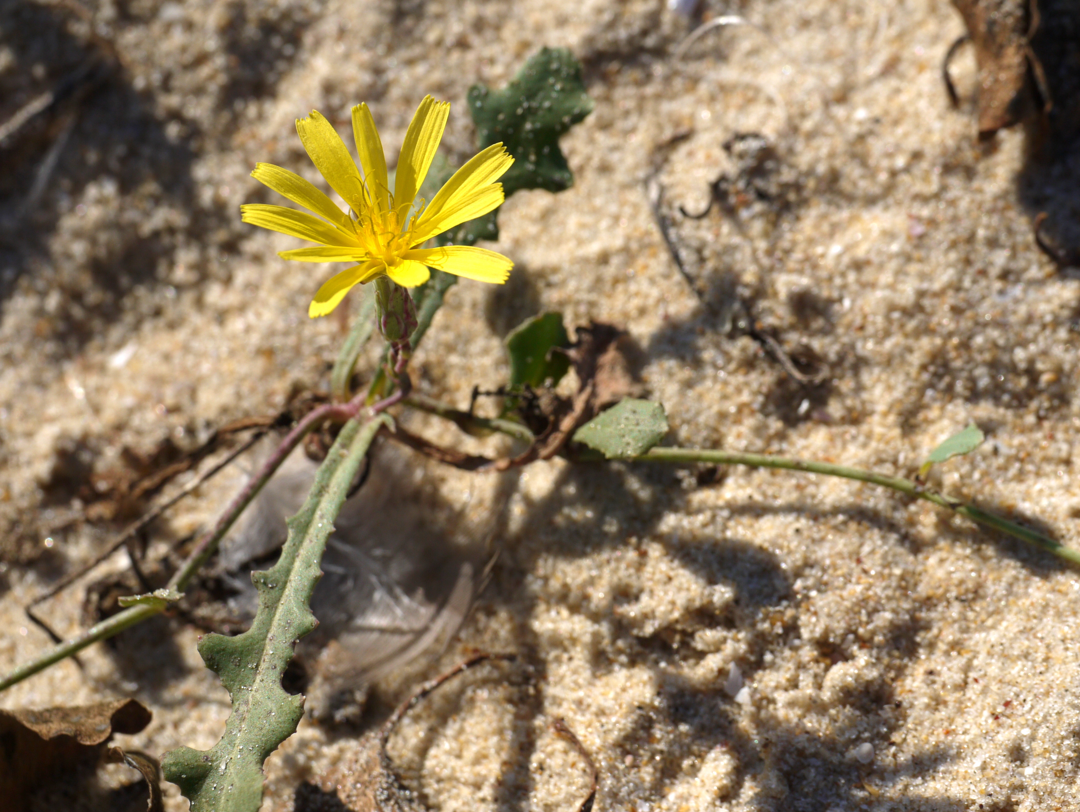 Asteraceae (aster, daisy, or sunflower family) » Launaea sarmentosa (Willdenow) Kuntze ¿ LAW-nay-ee-ah ? -- named for French lawyer Jean Claude Mien Mordant de Launay ... Hortipendium sar-men-TOH-suh -- producing a runner ... Dave's Botanary commonly known as: beach launaea • Marathi: सागर पाथरी sagar pathari • Tamil: செந்தம் centam Native to: e Africa, Indian Ocean, s China, India, Sri Lanka, s-e Asia; naturalized in w Australia References: Flowers of India • Flora of China • Wikipedia • ENVIS - FRLHT • Flowers of Sahyadri by Shrikant Ingalhalikar